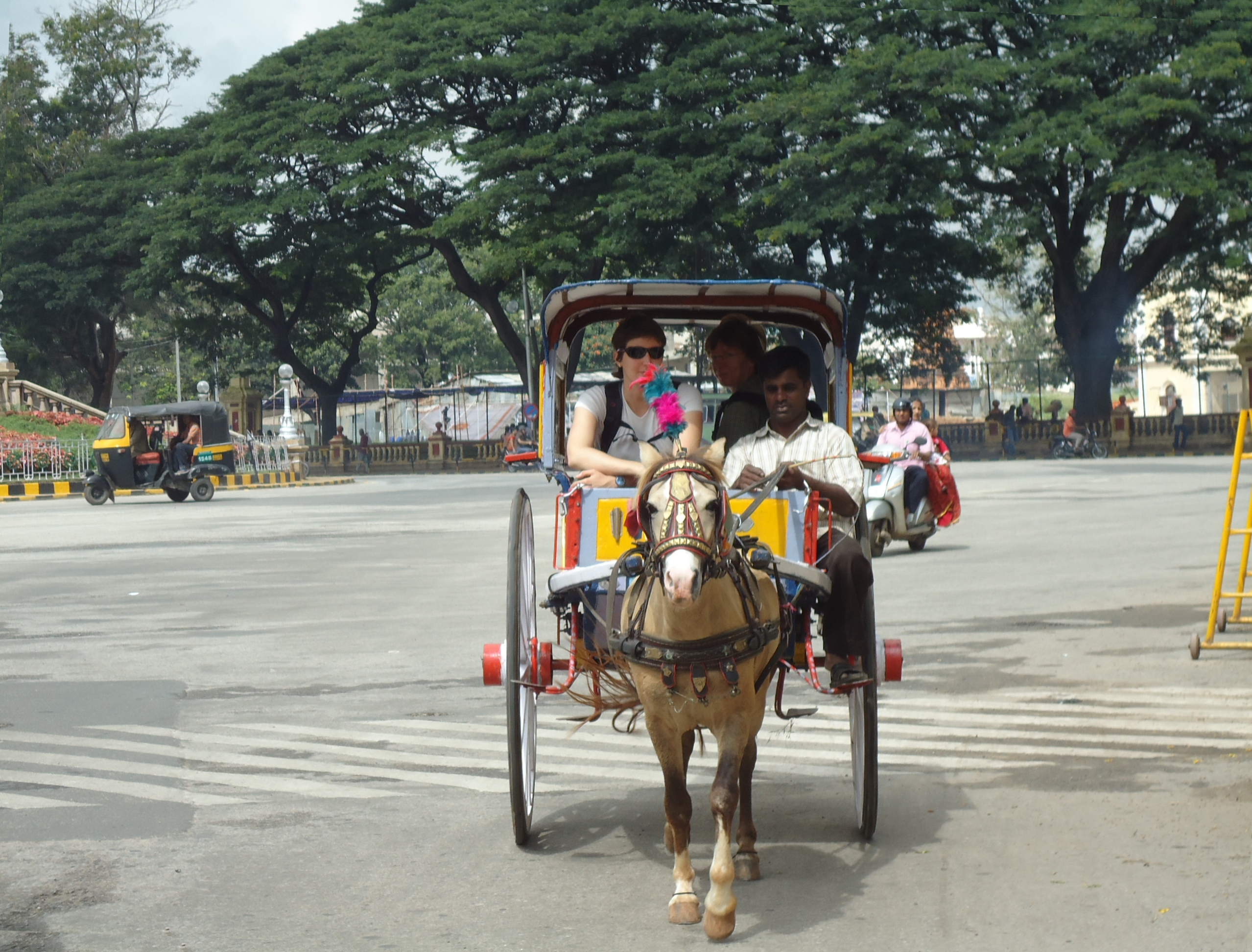 Tourists in horse cart Mysore